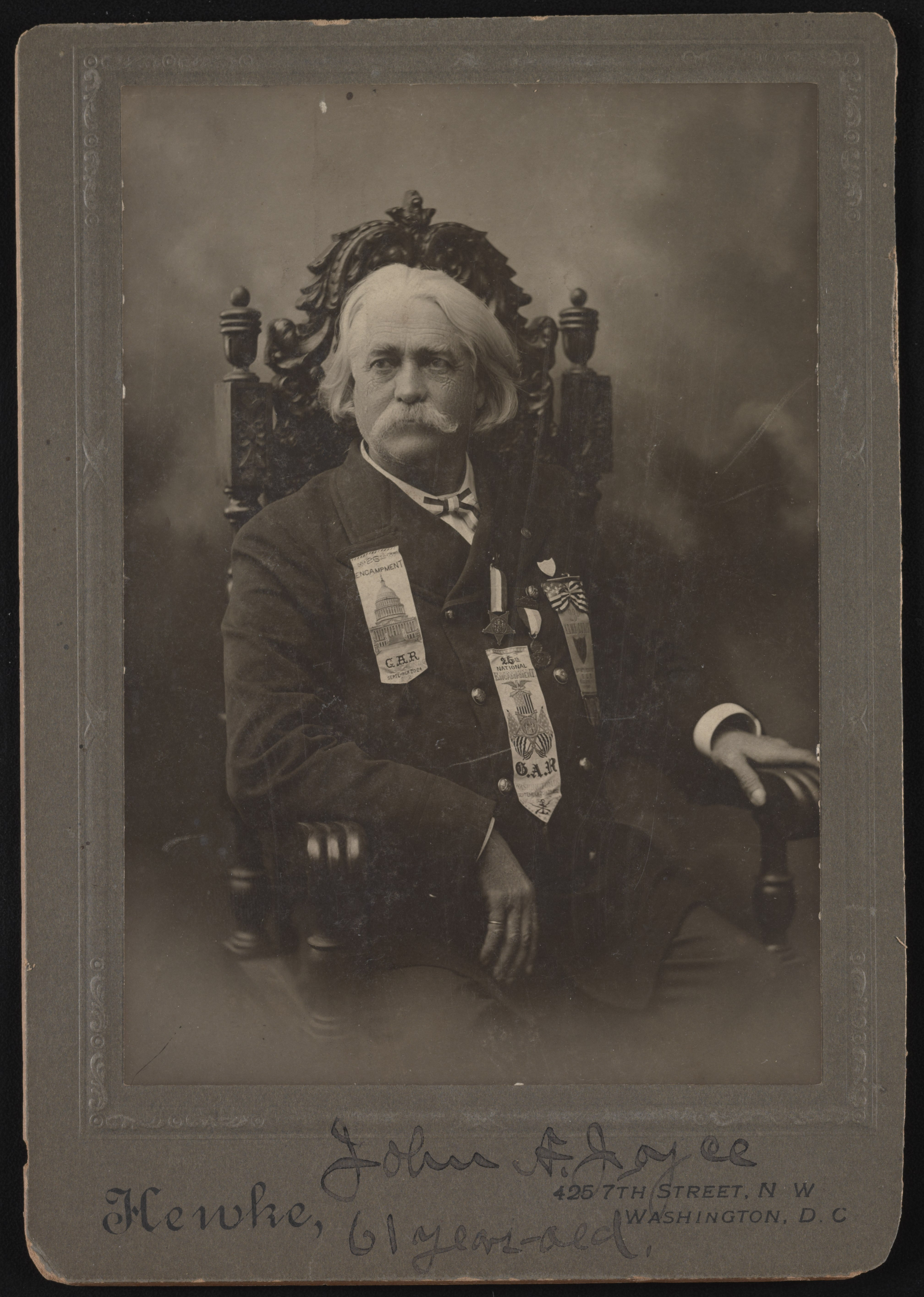 Title: Civil war veteran John Alexander Joyce] / Hewke, 425 7th Street, N.W., Washington, D.C Abstract/medium: 1 photograph : print ; sheet 14 x 10 cm, mount 18 x 13 cm.